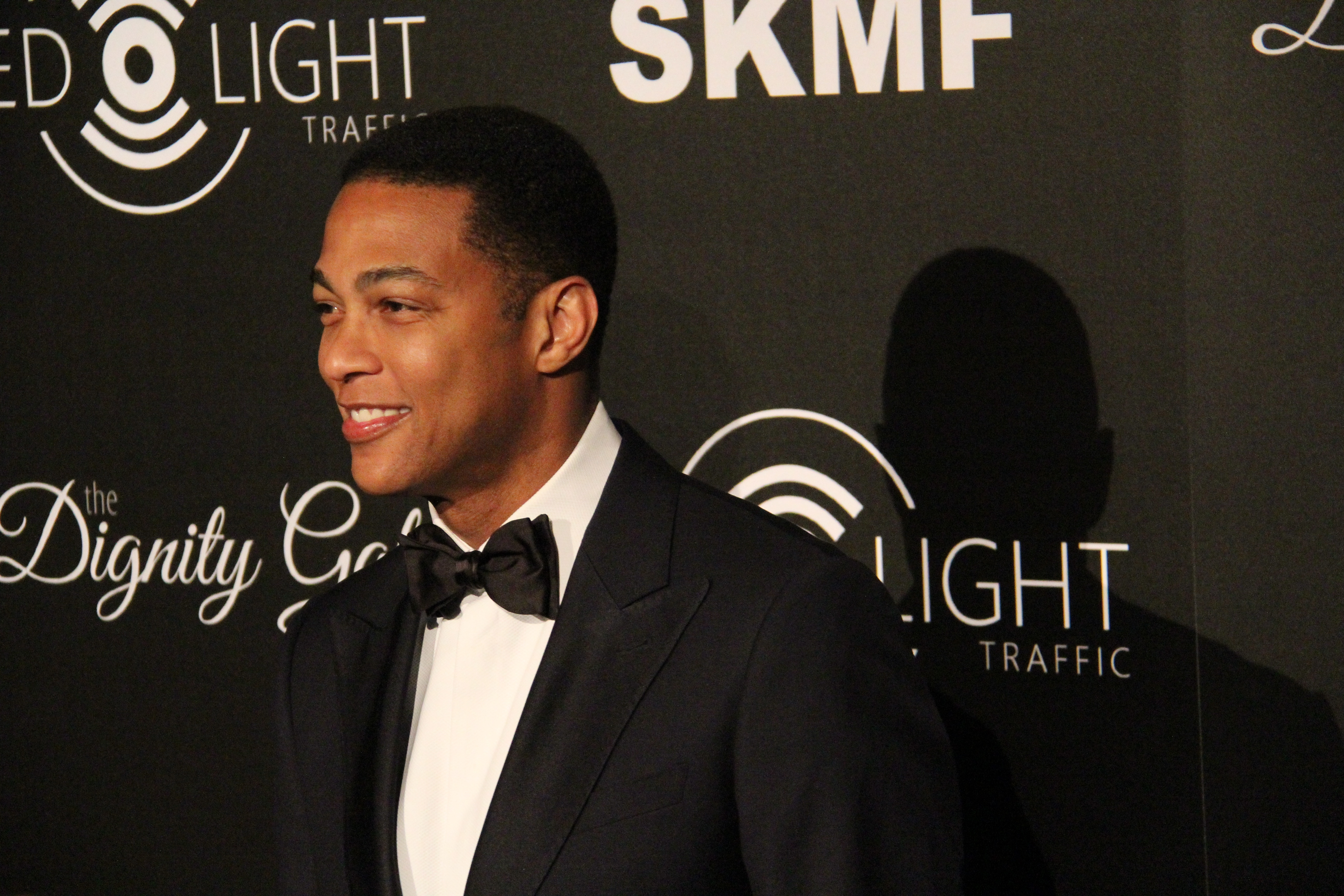 Don Lemon (CNN Newsroom) at Redlight Traffic's inaugural Dignity Gala (Michelle Tiu / Neon Tommy)